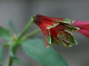 Parrot Lily (Alstroemeria psittacina), also known as Parrot Flower, Peruvian Lily, Lily of the Incas, or Princess Lily